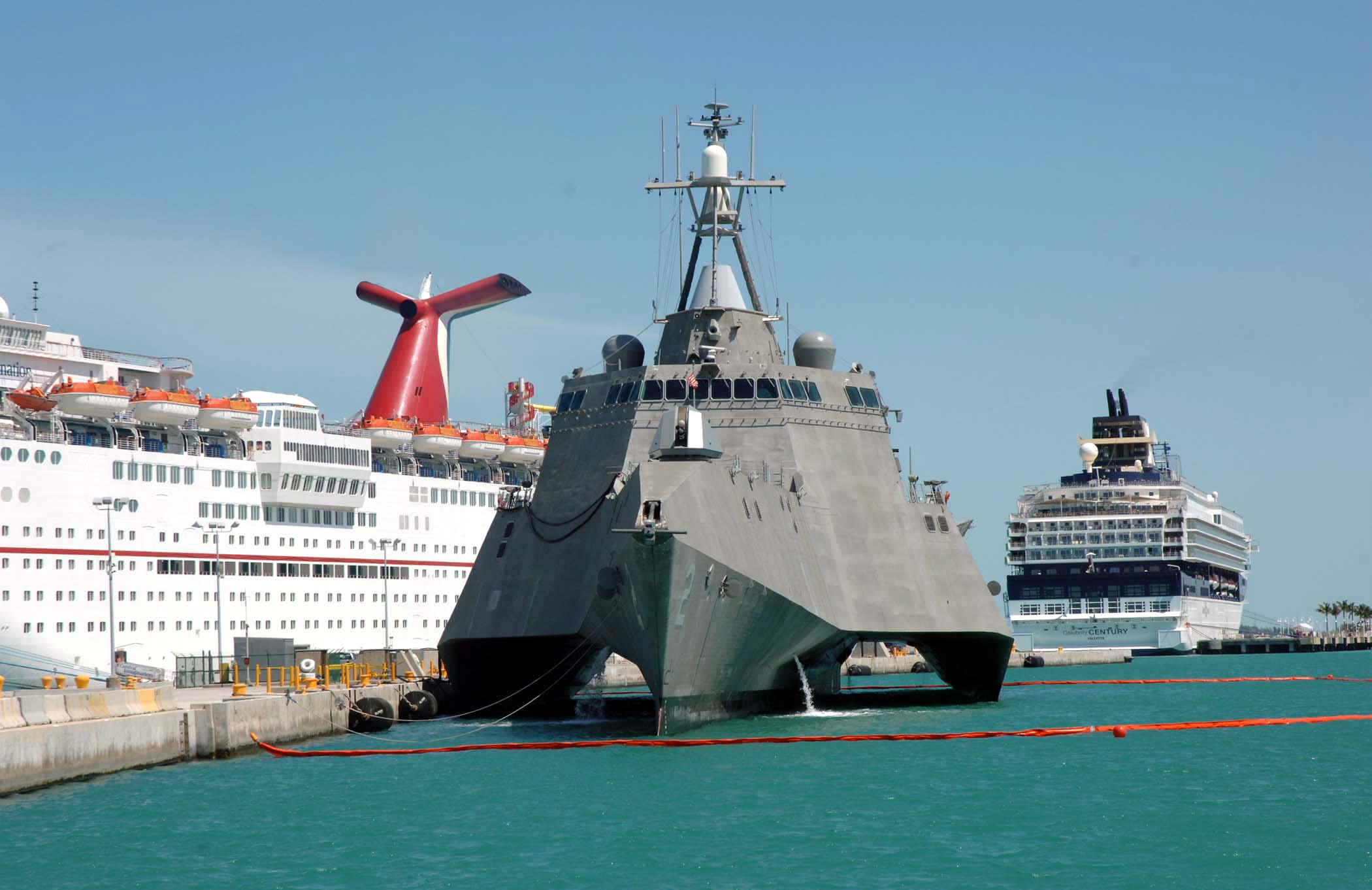 KEY WEST, Fla. (March 31, 2010) The littoral combat ship USS Independence (LCS 2) is pier side during a port visit to Key West, Fla. Independence is enroute to Norfolk, Va., for commencement of initial testing and evaluation of the aluminum vessel before transiting to its homeport in San Diego. (U.S. Navy photo by Lt. Zachary Harrell/Released)